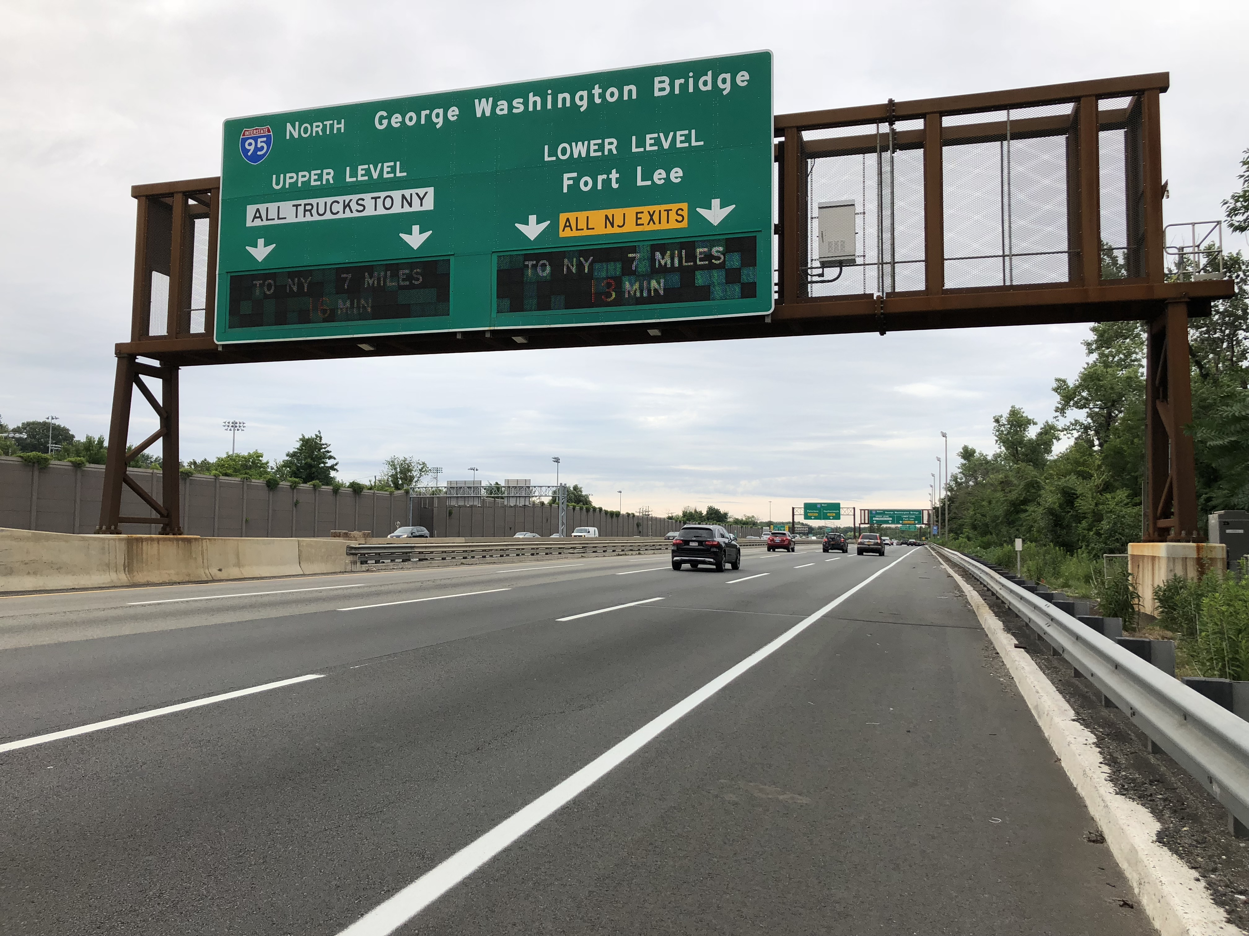 View north along Interstate 95 (New Jersey Turnpike Northern Extension) just north of Exit 68 in Ridgefield Park, Bergen County, New Jersey